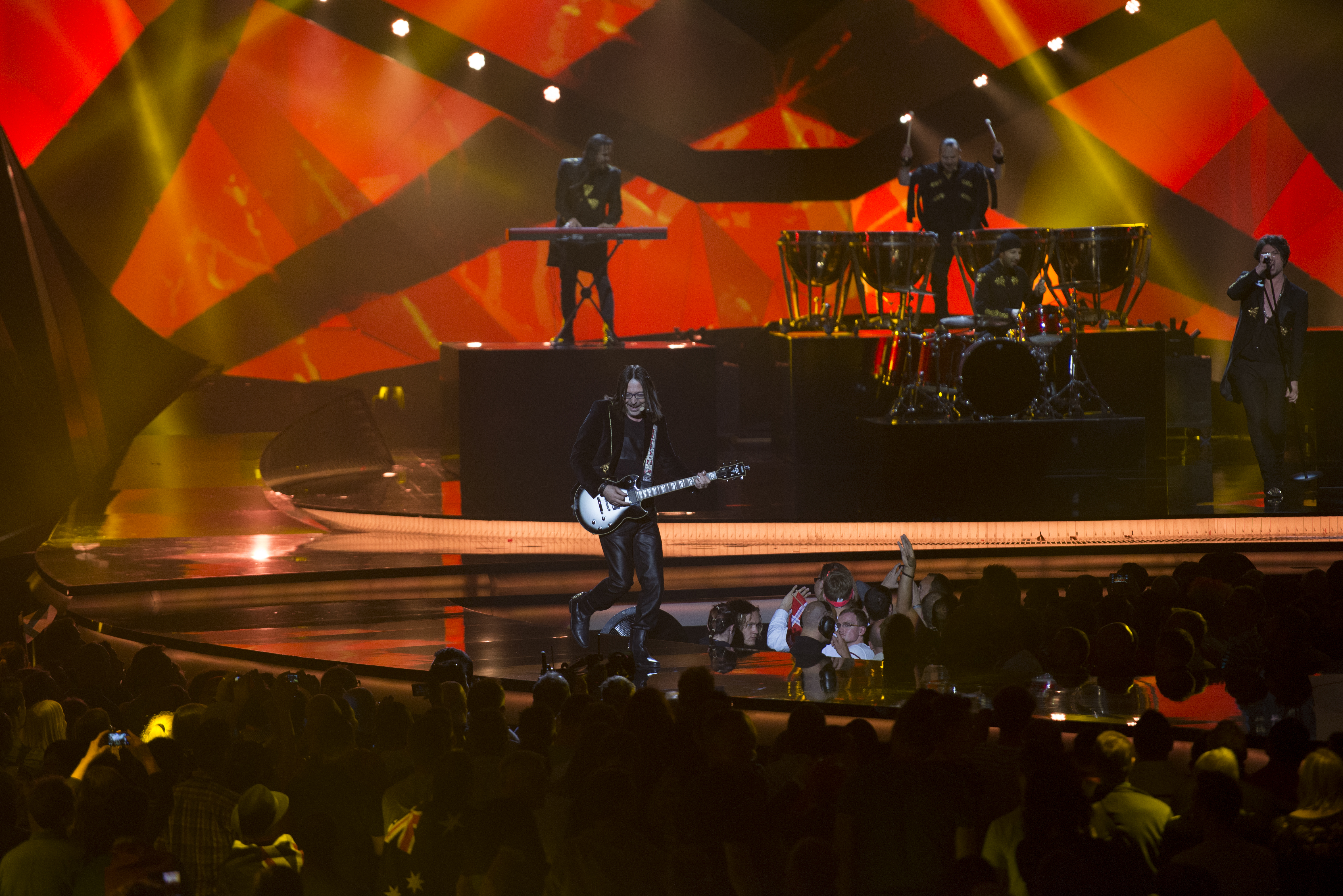 Adrian Lulgjuraj & Bledar Sejko from Albania performing their song in the second dress rehearsal for the second semi final of the Eurovision Song Contest 2013.